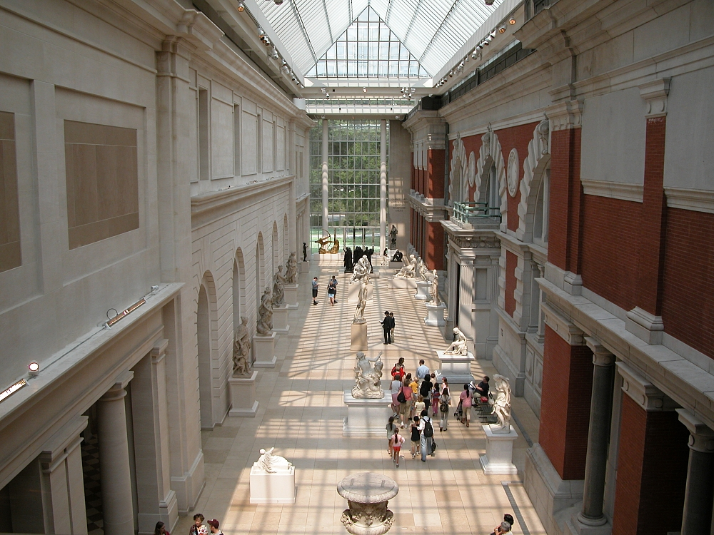 Metropolitan Museum of Art, New York, USA : Carroll and Milton Petrie European Sculpture Court